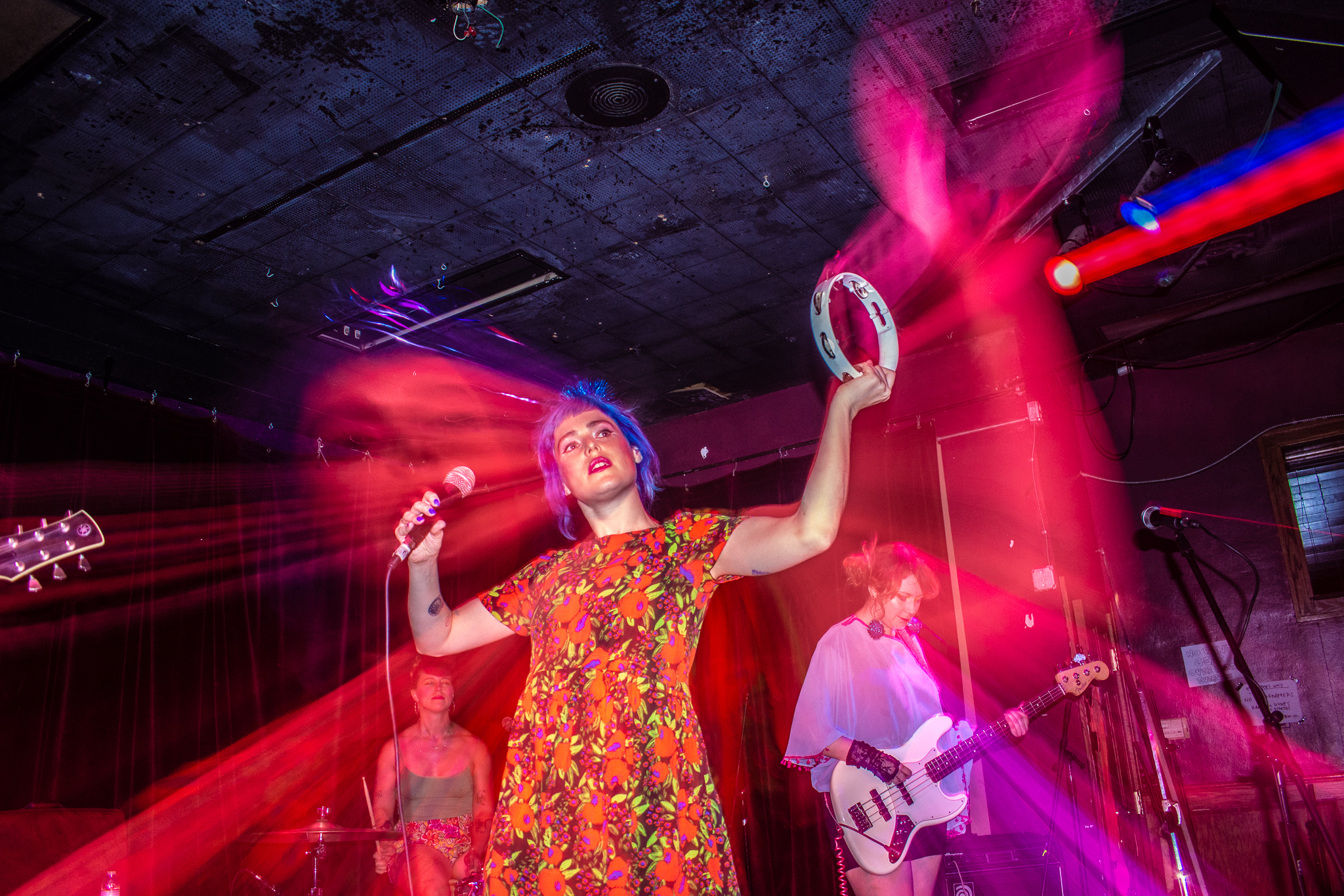 Emily Noakes of Tacocat at Ace of Cups, Columbus, OH